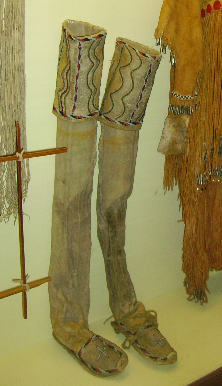 Indian moccasins, most likely Apache women's beaded hide moccasins